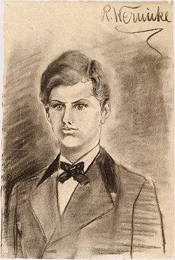 Portrait of Wilhelm Berger by R. Wernicke